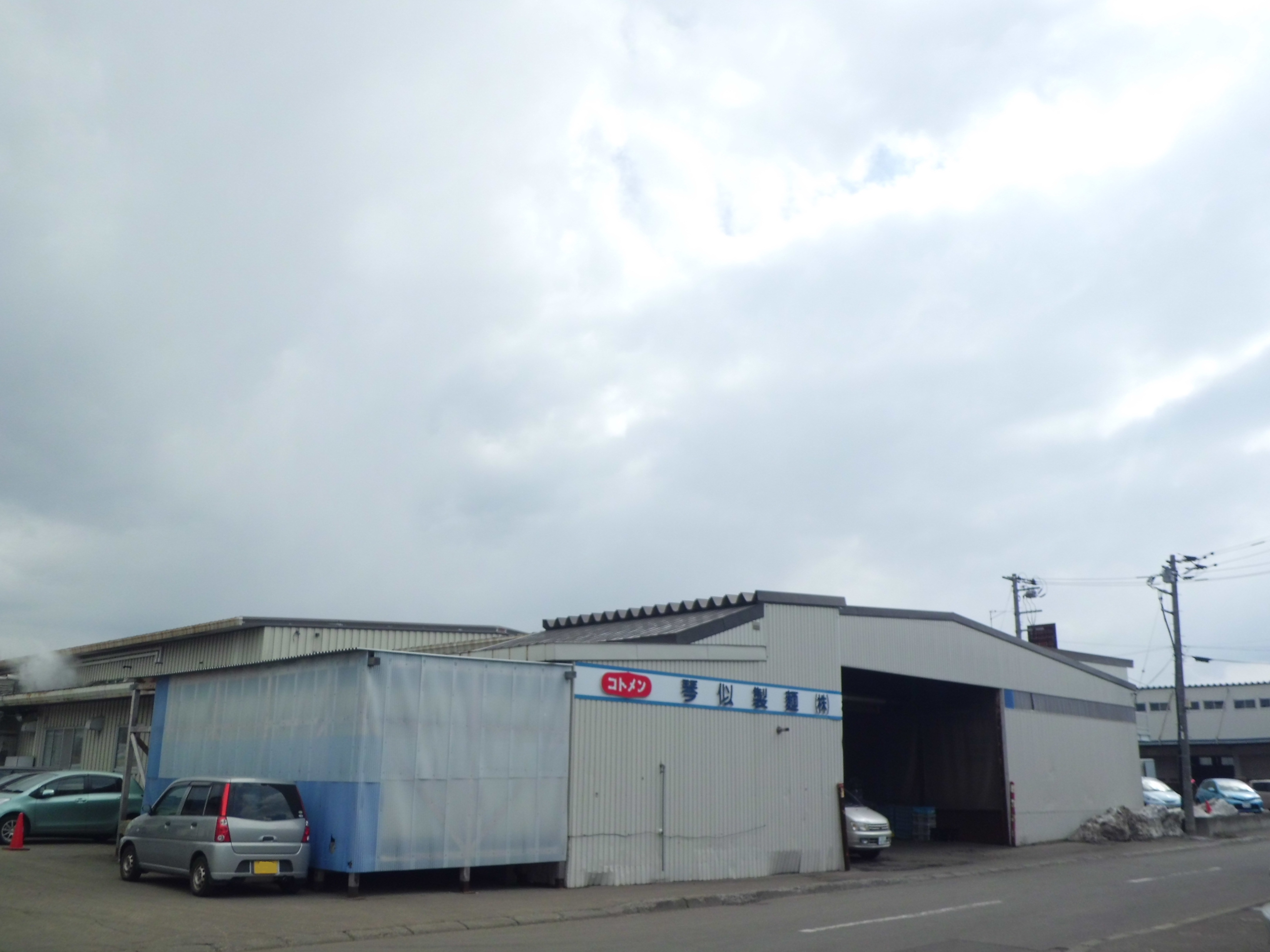 Kotomen Foods in Nishi-ku, Sapporo